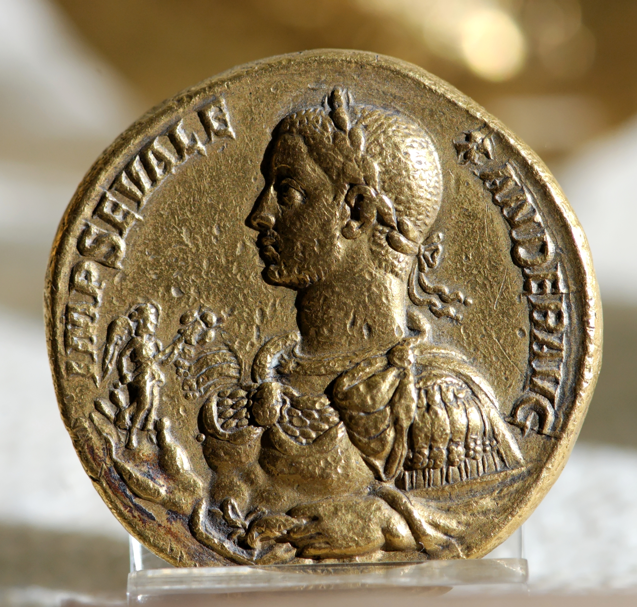 Gold multiple of Alexander Severus, ca. 230 CE.